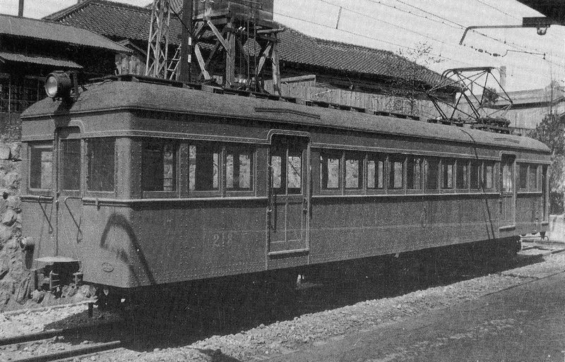 Odawara Express Railway No.213,EMU Type 201